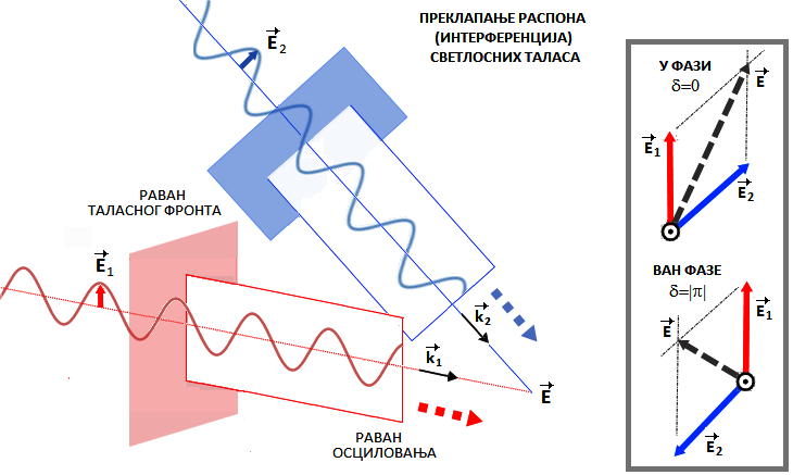 УКРШТАЊЕ ТАЛАСА